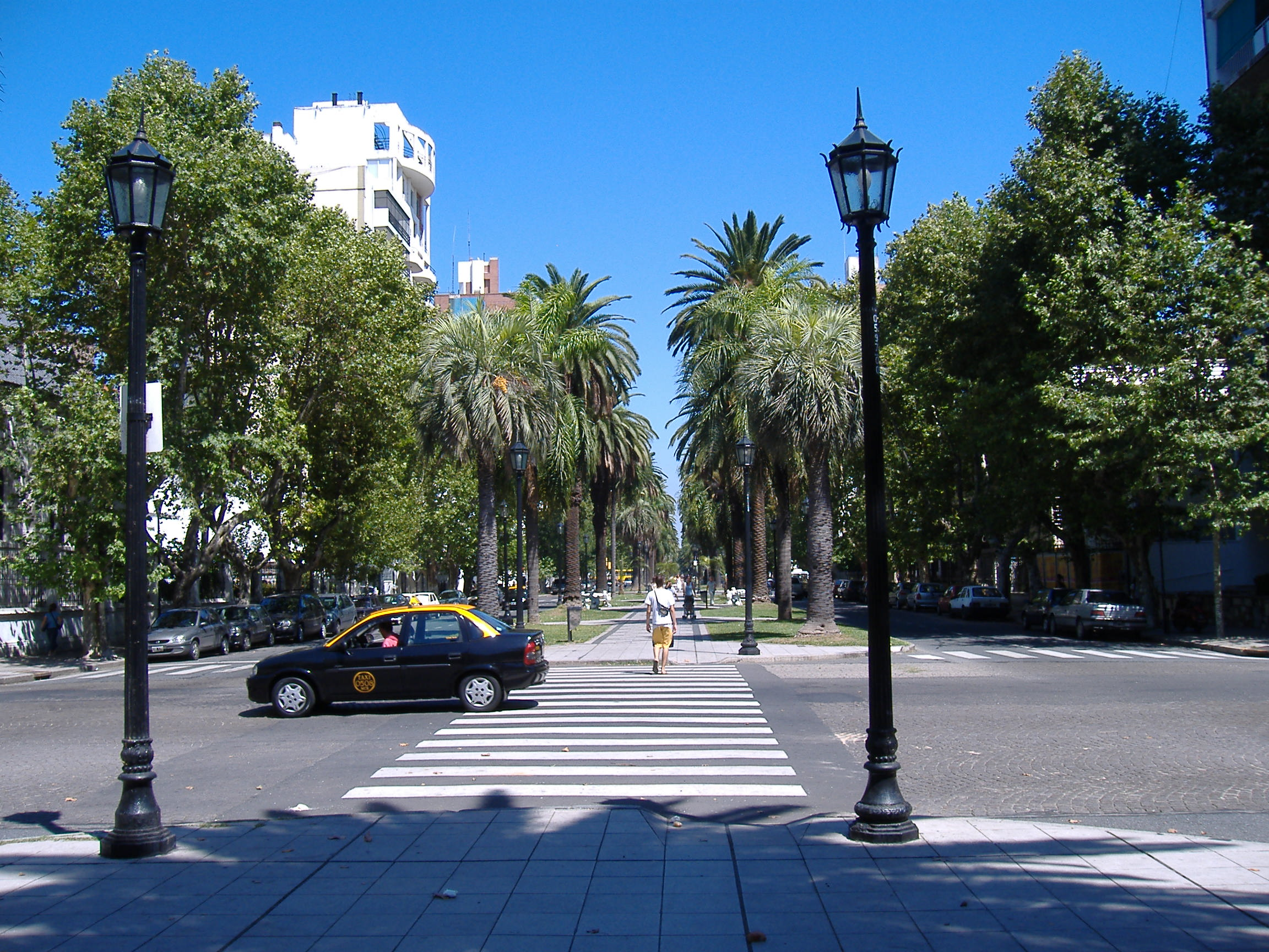 Bulevar Oroño (Oroño Boulevard) in downtown Rosario, Argentina. This is the intersection with San Lorenzo St. This picture was taken by Pablo D. Flores on 7 March 2006.